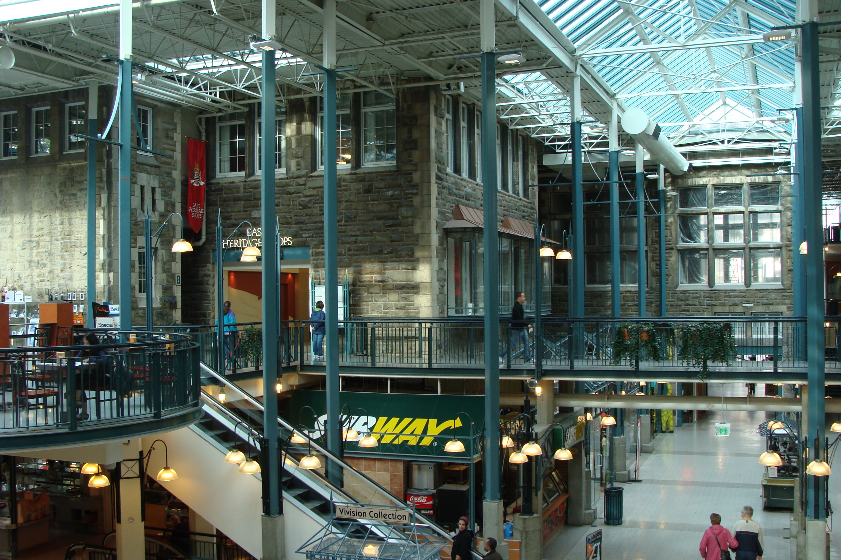 Normal School - inside mall